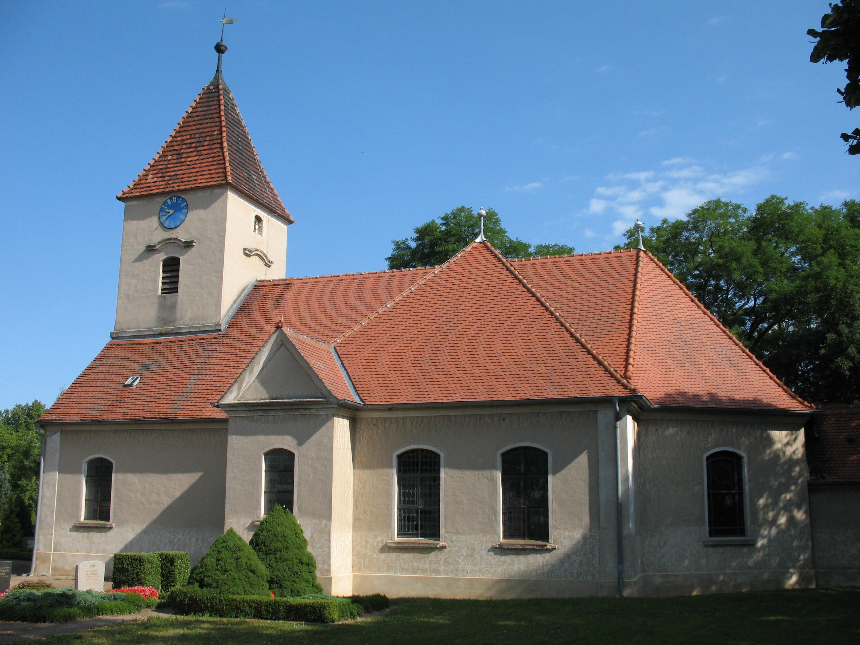 Church in Krahne (municipality Kloster Lehnin) in Brandenburg, Germany